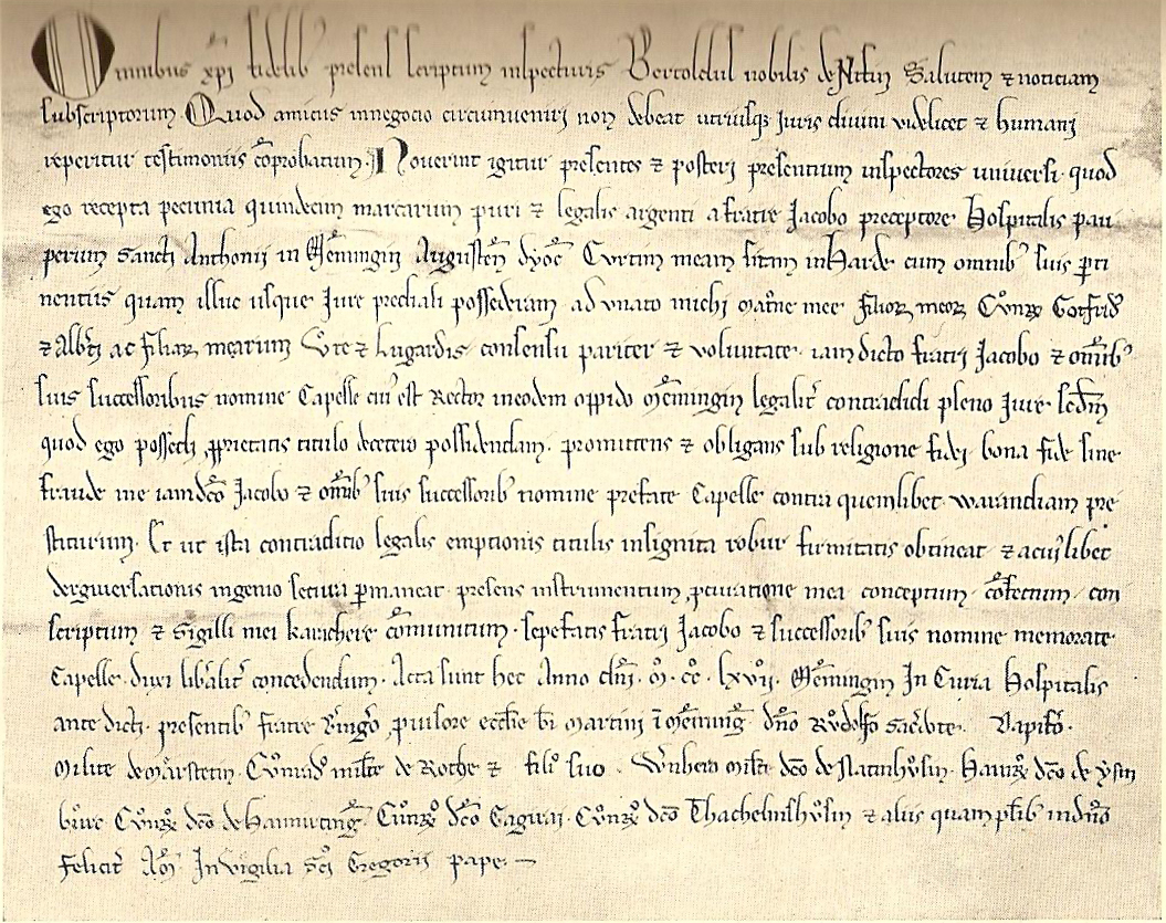 This is a scan of the document: Ludwig Mayr - Geschichte der Herrschaft Eisenburg (History of the Herrschaft Eisenburg)